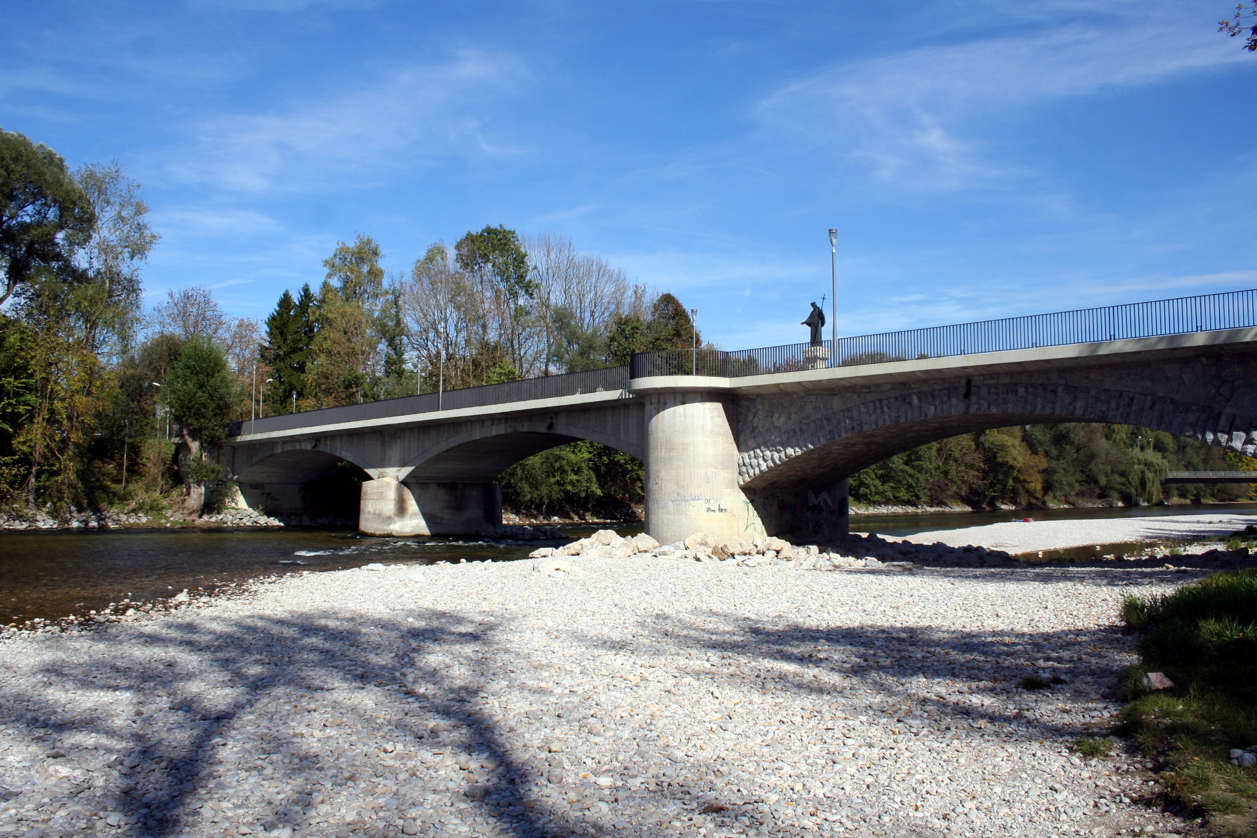 Bridge over the Isar in Freising. Named after Corbinian